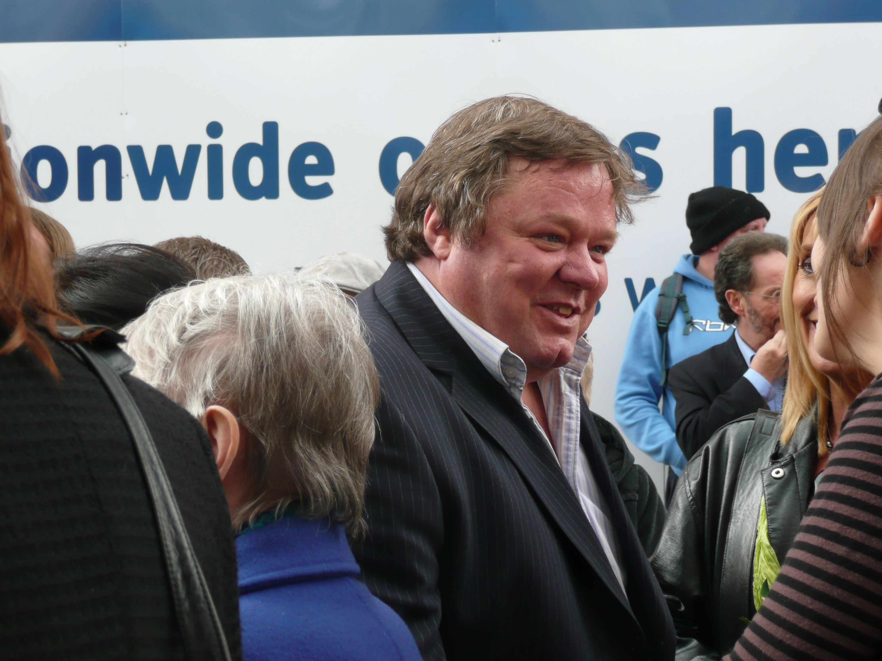 Ted Robbins at the Fred Dibnah statue unveiling